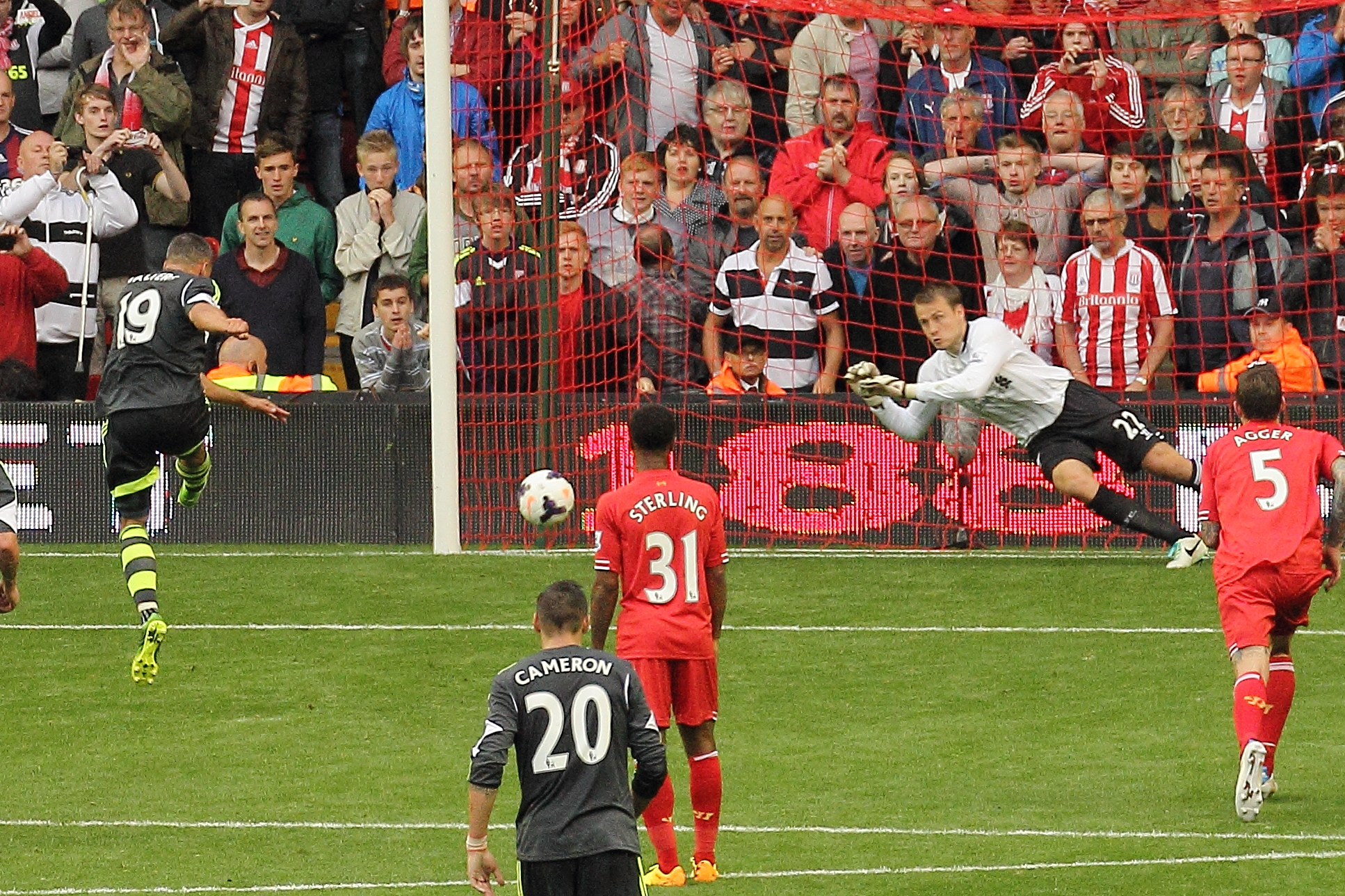 Simon Mignolet rescues the win for Liverpool by saving Walters' late penalty